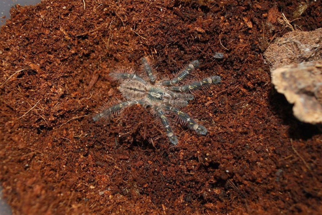 Poecilotheria rufilata - Redslate Ornamental